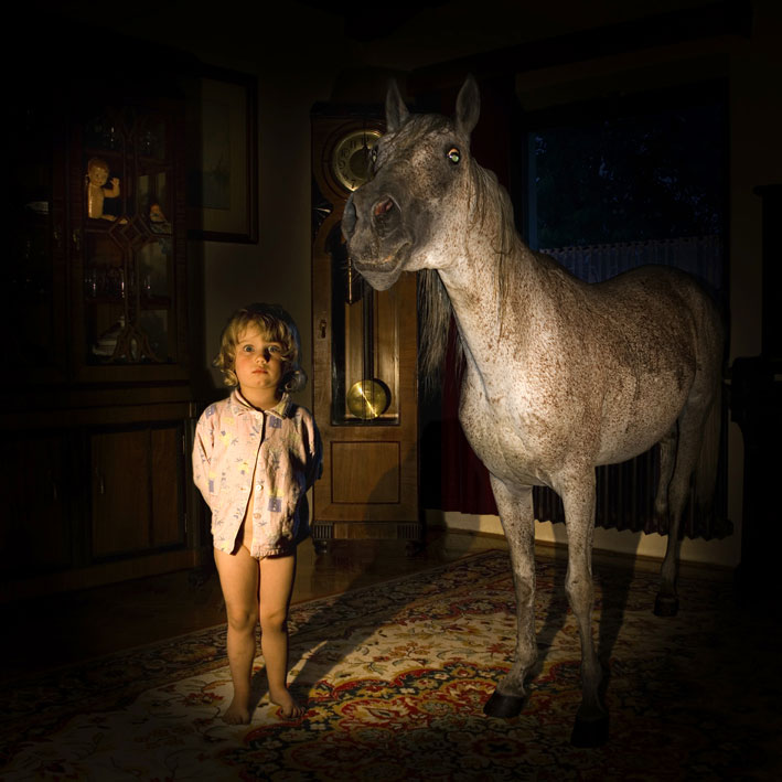 Fotografie Barbory Bálkové; Barbora Bálková´s photographs Personality rights warningAlthough this work is freely licensed or in the public domain, the person(s) shown may have rights that legally restrict certain re-uses unless those depicted consent to such uses. In these cases, a model release or other evidence of consent could protect you from infringement claims.